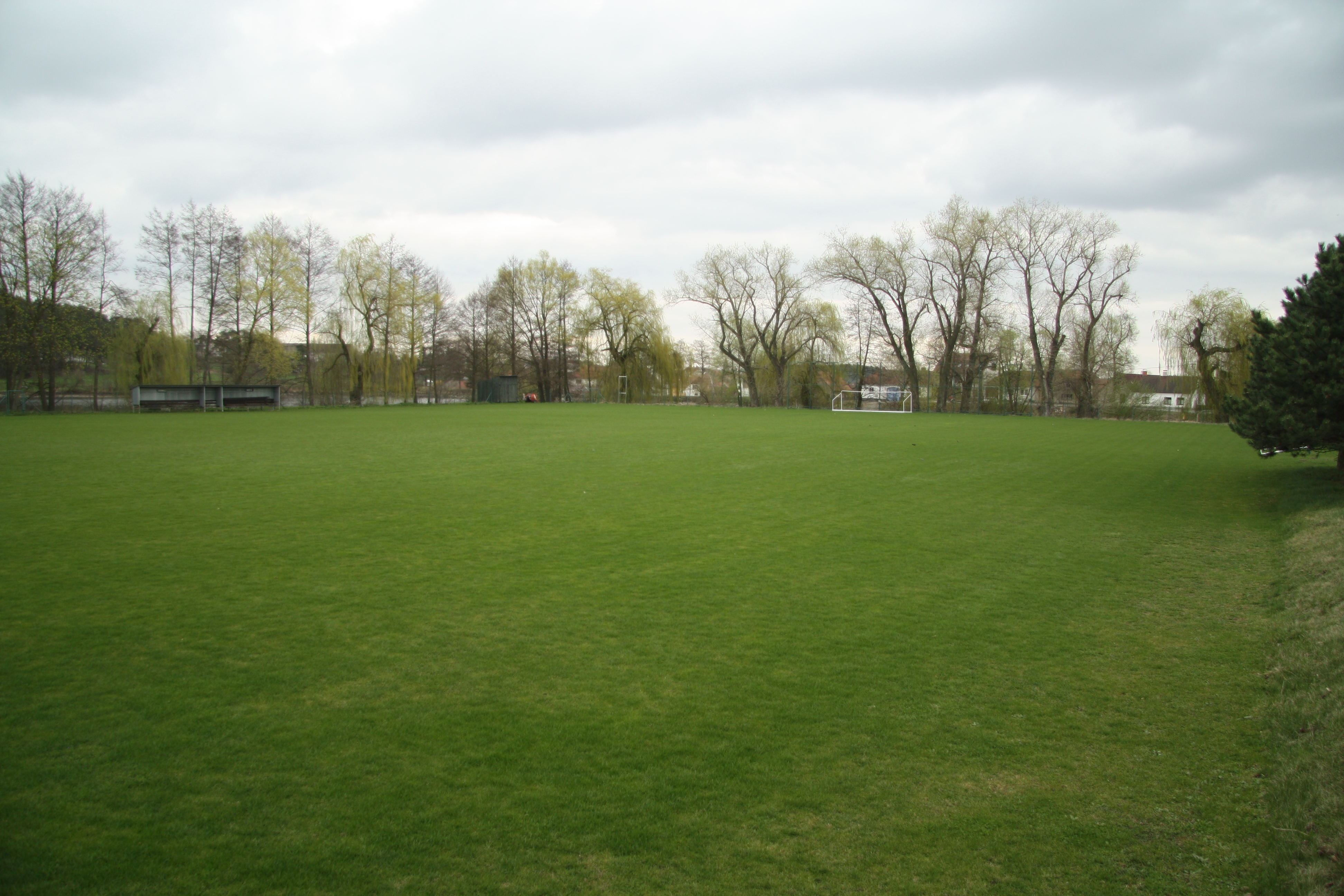 East view of soccer playfield in Nárameč, Třebíč District.